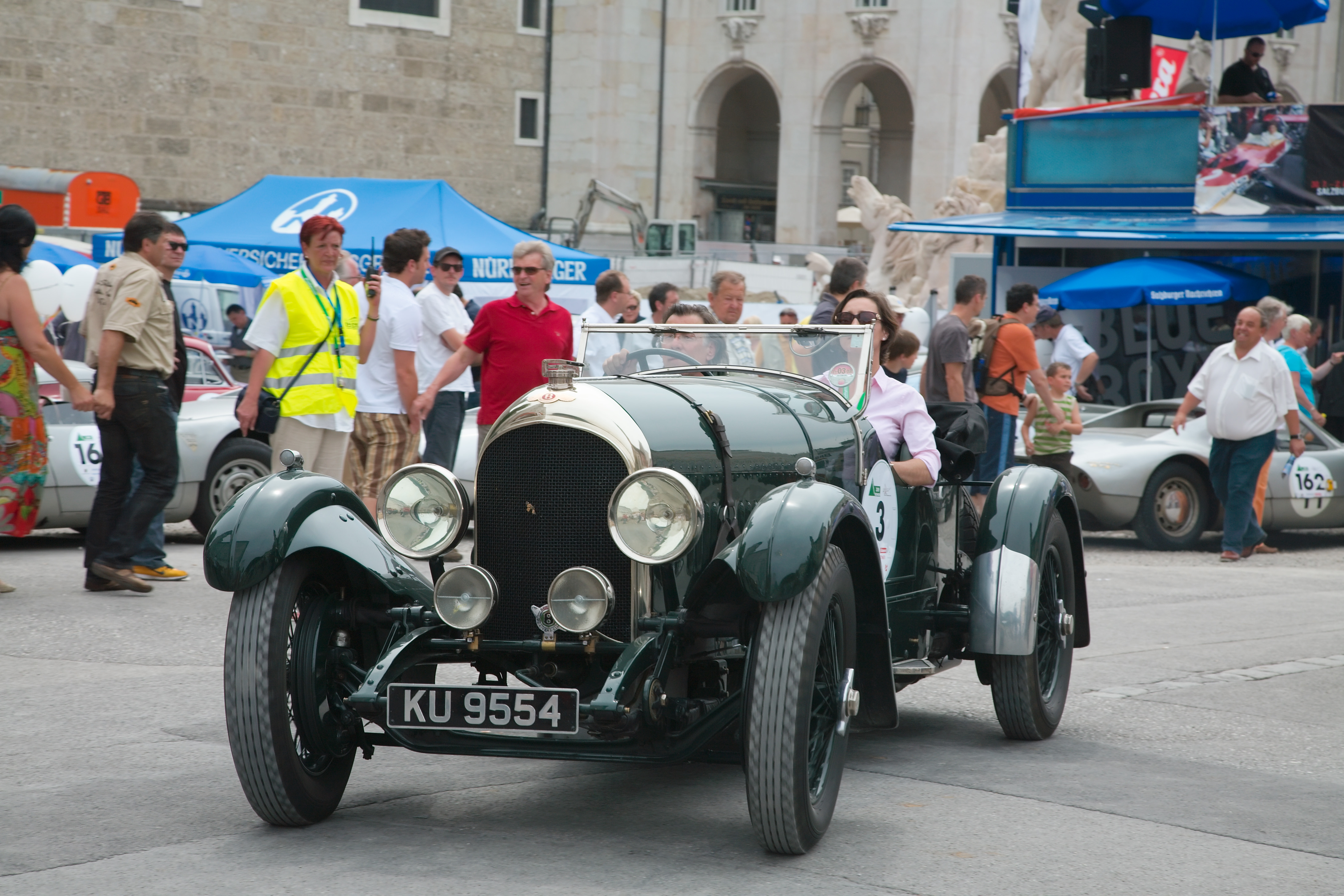 1925 Bentley 3 Litre at 2009 Gaisbergrennen in Salzburg.